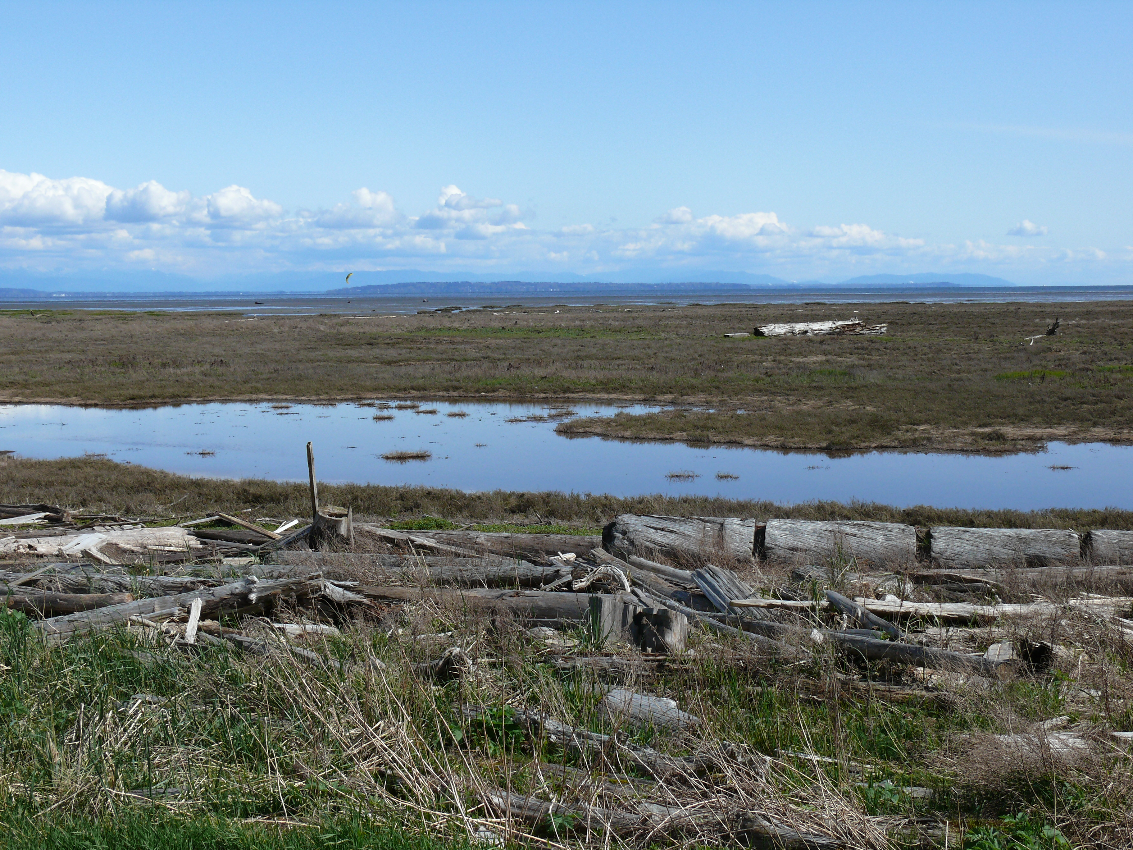 boundary bay low tide